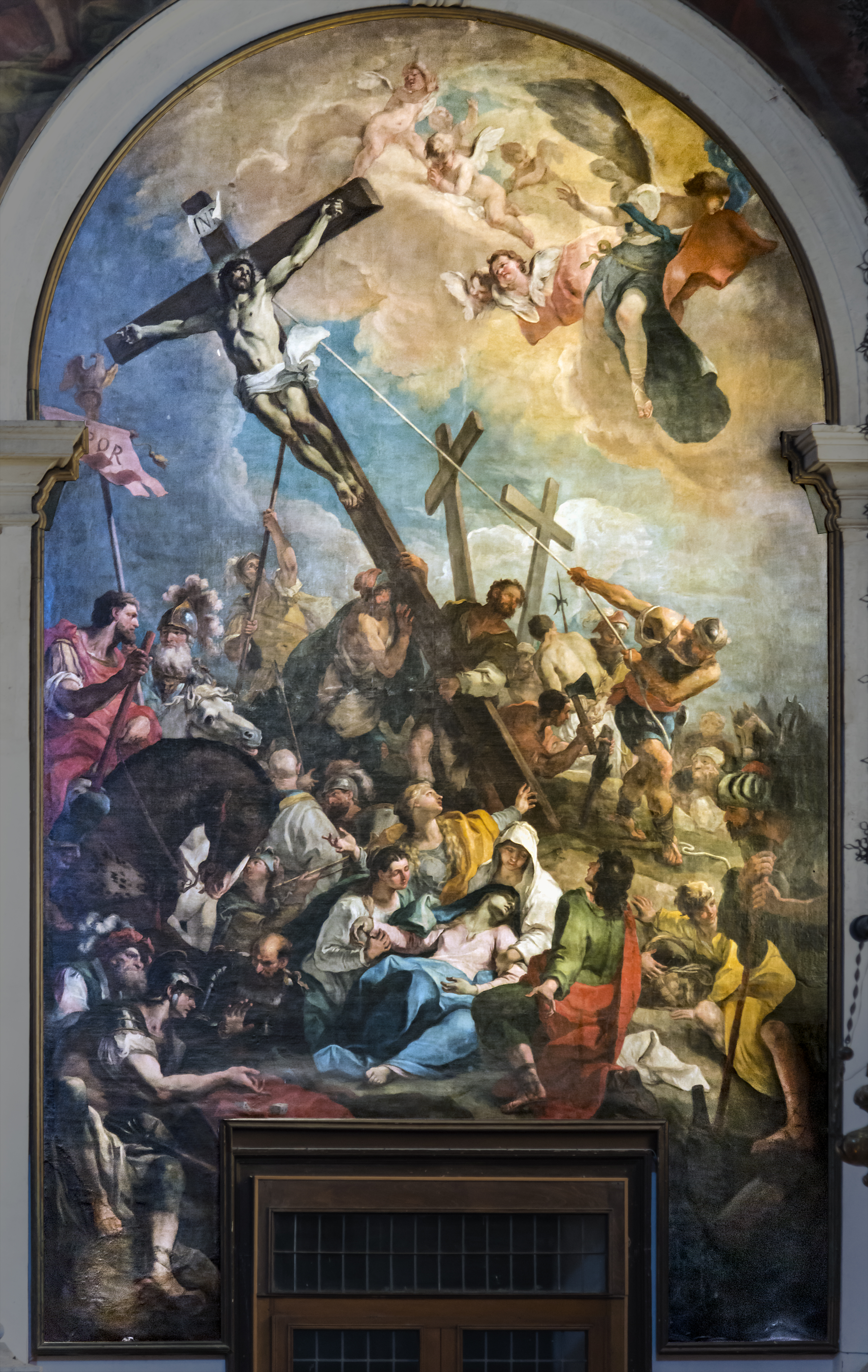 Elevation of the Cross by Girolamo Brusaferro, San Moisè, Venice 1727.